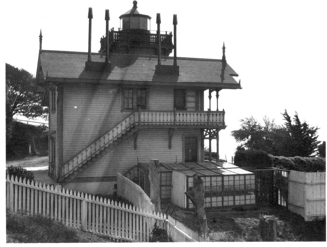 Public Domain statement here; Mare Island Light; no caption/date/photo number; photographer unknown. View of the light from the north side.